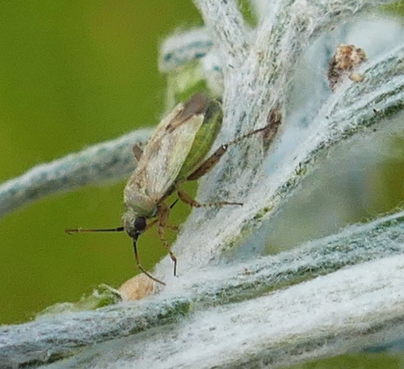 Europiella decolor (Miridae) - (female imago), Texel - Mokbaai, the Netherlands